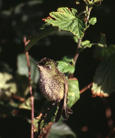 The Green-back Firecrown Humming Bird survives in southern Chiloe Island of Chile, where it is known as Picaflor Chico.